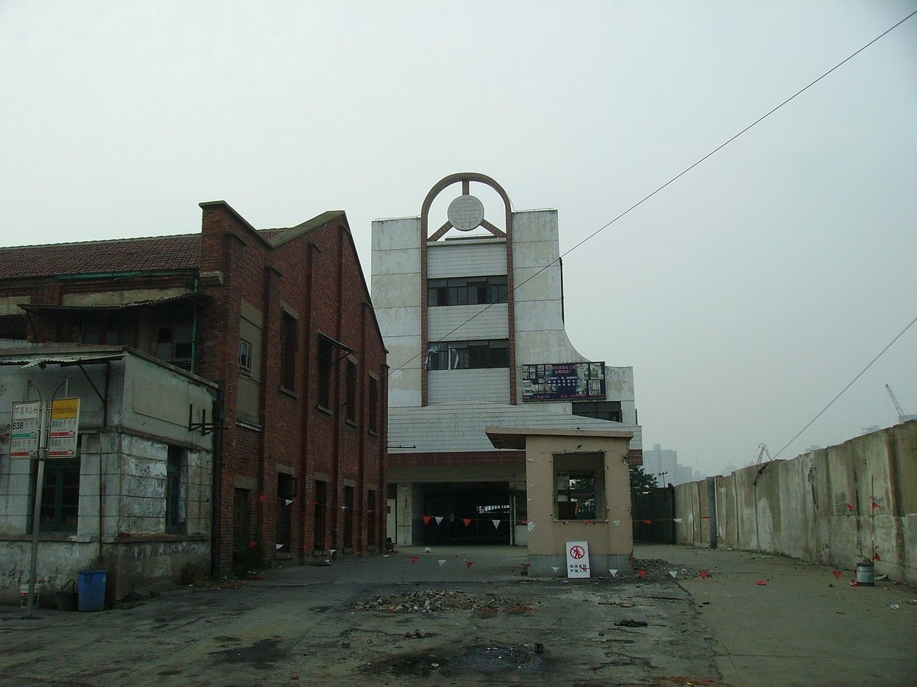 Zhoujiadu Ferry 2006